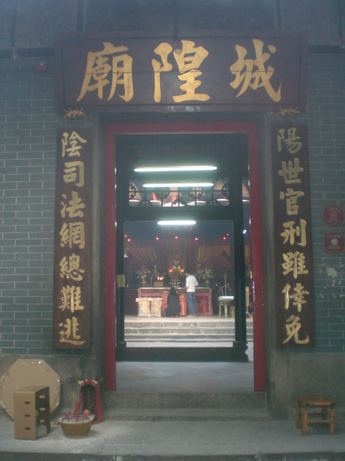 Shing Wong Temple within the Tin Hau Temple Complex, Yau Ma Tei